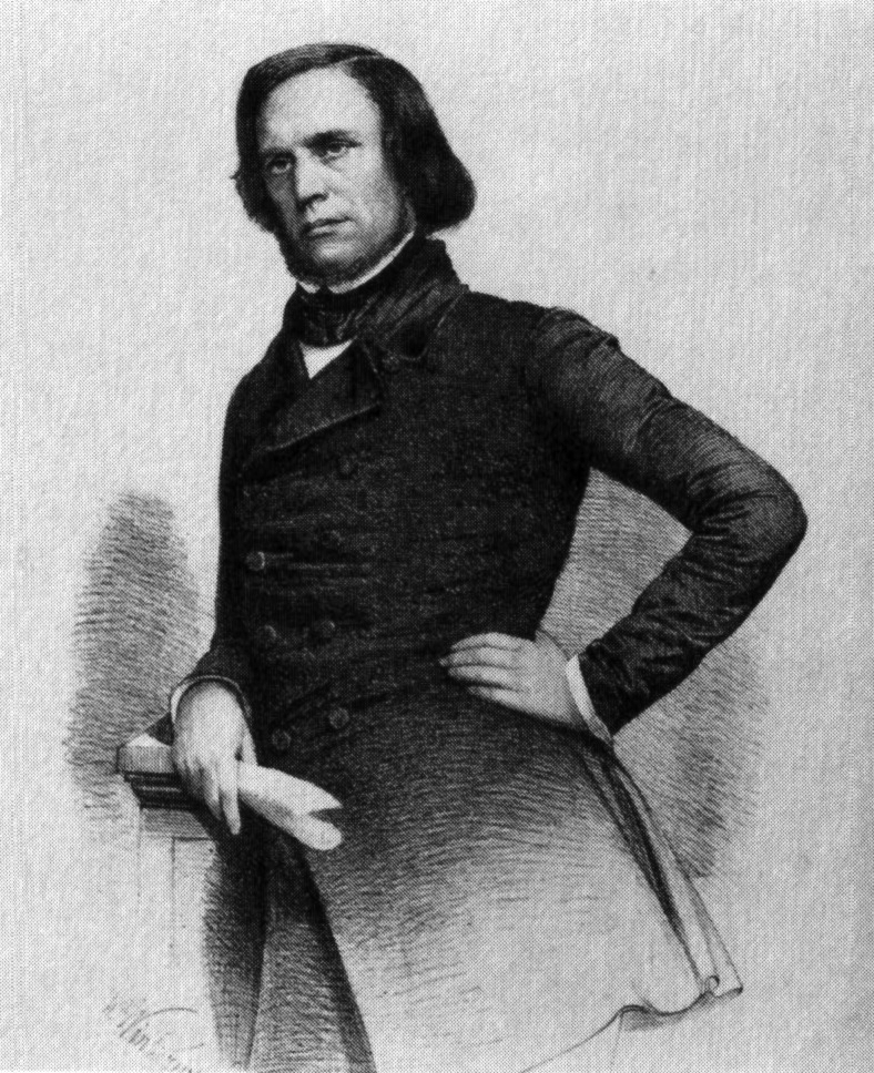 August Hergenhahn, German politician (1804-1874) see August Hergenhahn